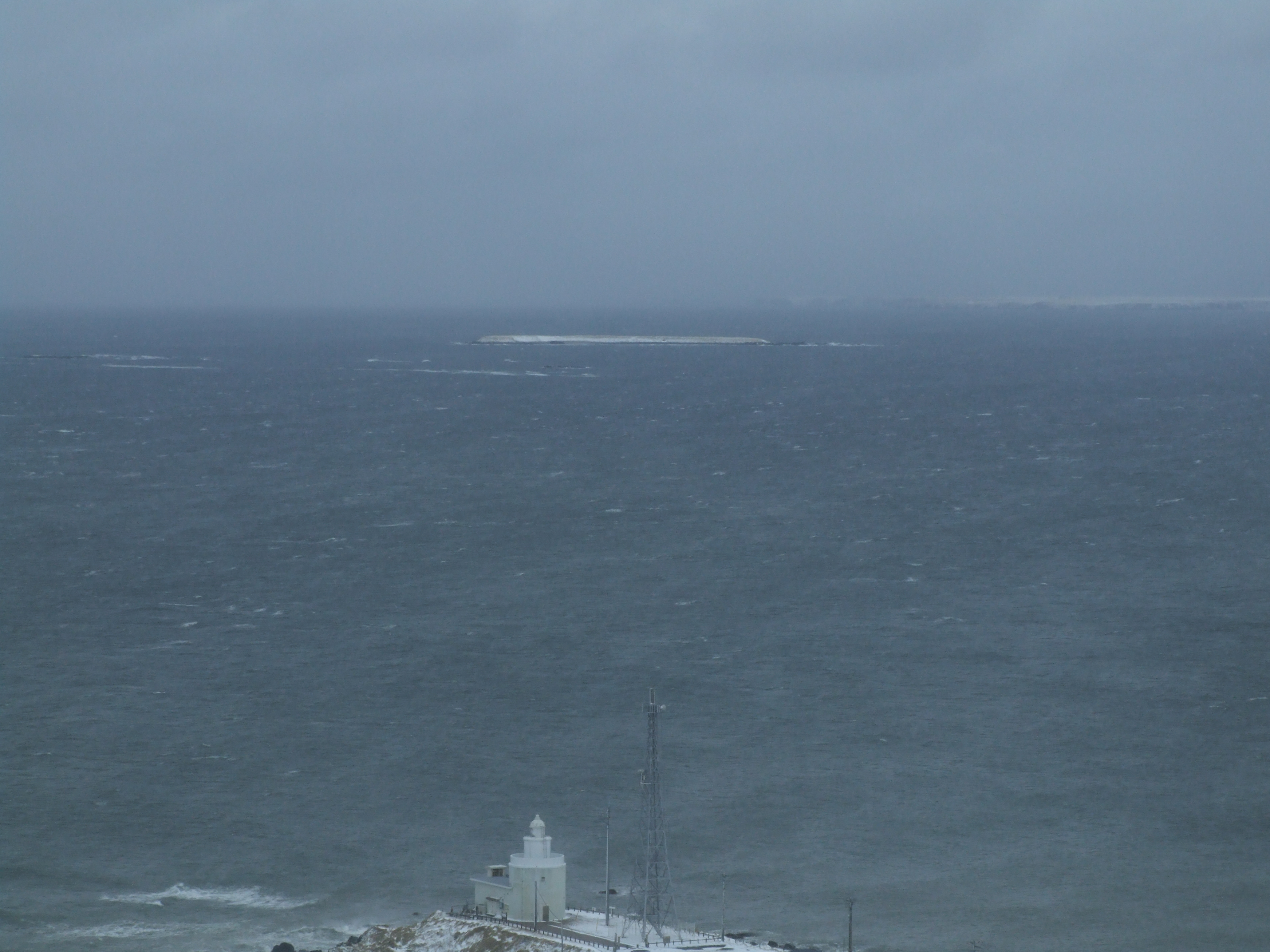 View on some of the Russian governed Khabomai (Japanese: Habomai) islets from the Japanese Cape Nossapu (2006/03/21).